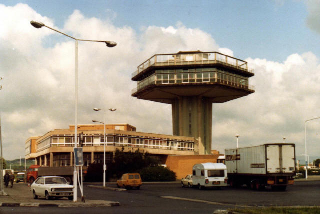 Forton Services